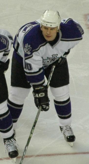 Nathan Dempsey of the Los Angeles Kings, December 21, 2005